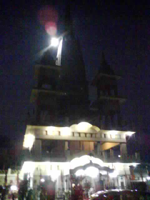 Augarnath Temple(Kali Paltan Mandir) of Meerut on the second Navratri night.